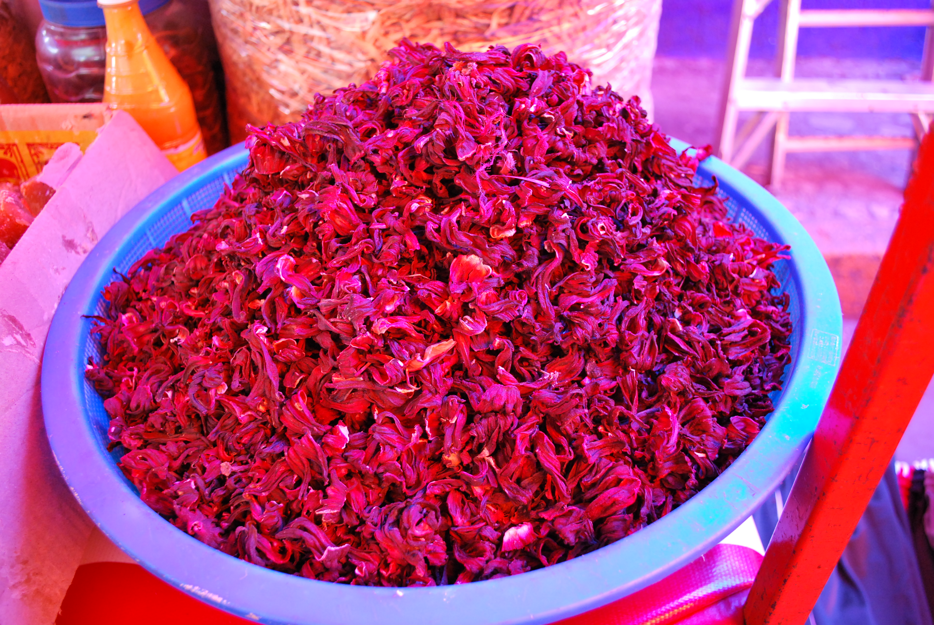 Dried hibiscus flowers (called "jamaica" in Mexico) used for brewing a kind of tea. For sale at a tianguis market in Metepec, Mexico